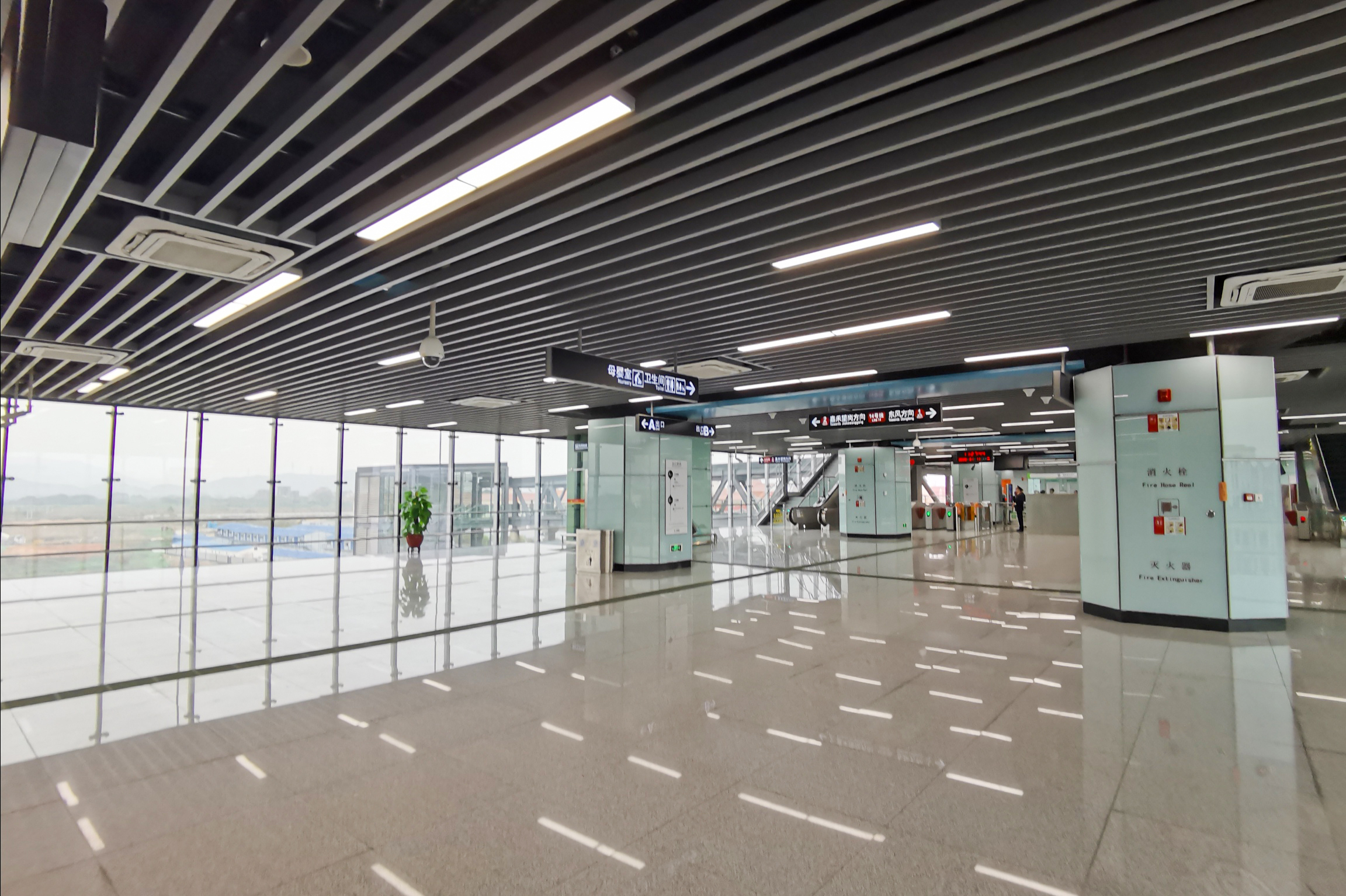 广州地铁神岗站